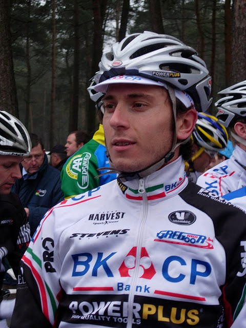 Italian Cyclo crosser